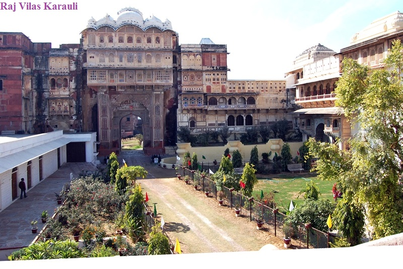 Rajvilas karauli